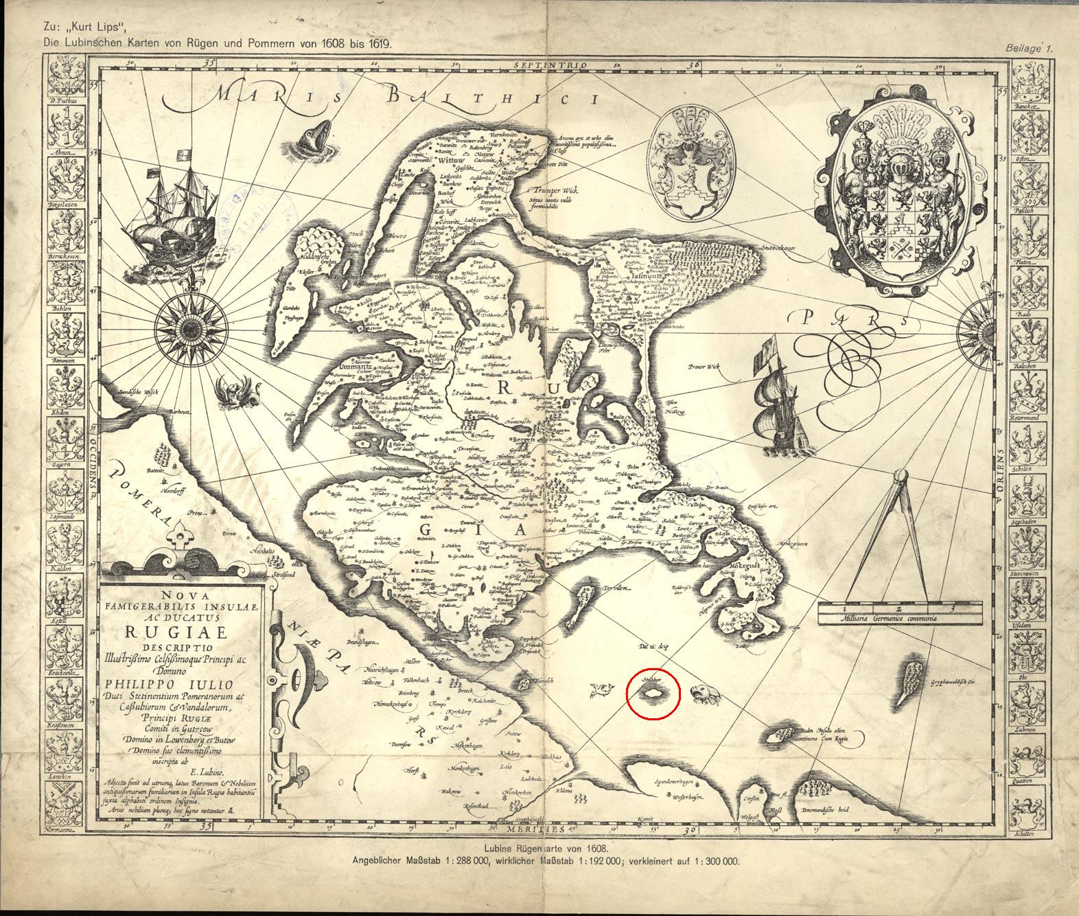 Island Stubber marked red (Map of Rügen, scale 1:300,000)